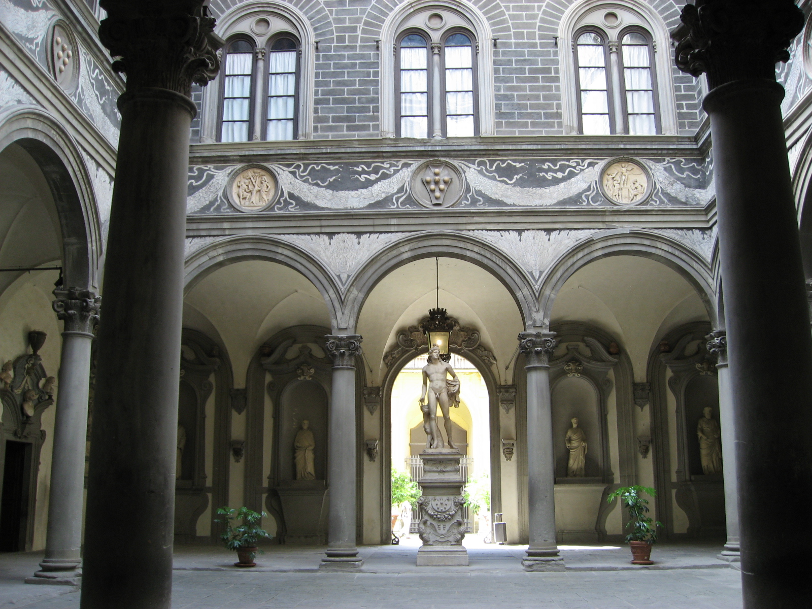 Courtyard of Palazzo Medici-Riccardi